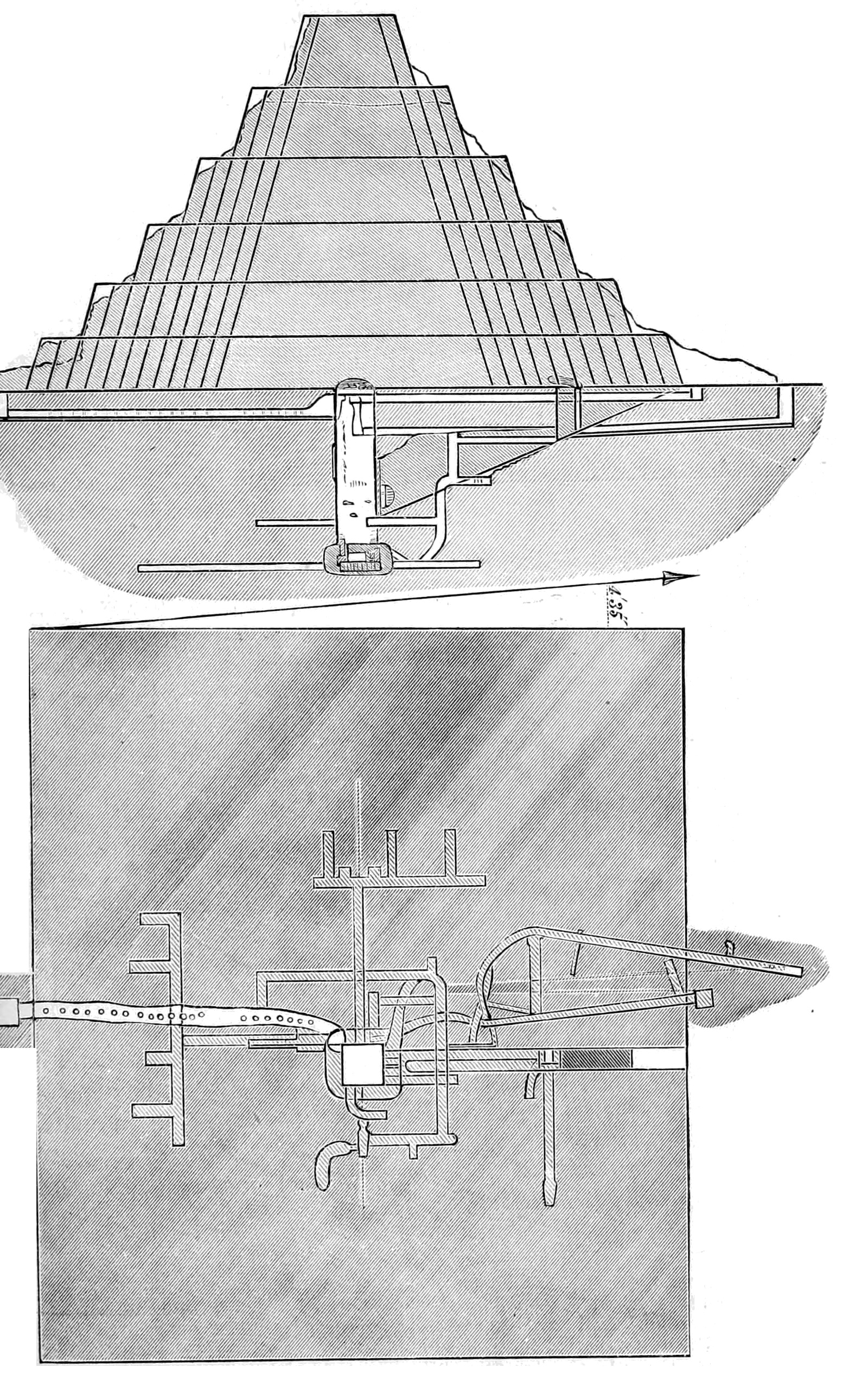 Illustrations from the book, A History of Architecture in All Countries, vol. I. (1887) Written and illustrated(?) by James Fergusson.